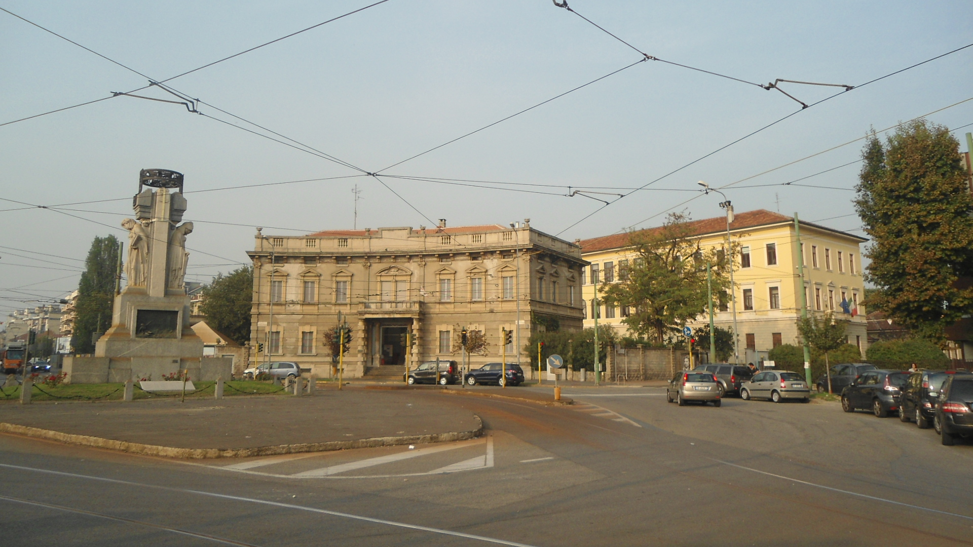 Piazzale Santorre di Santarosa with War Memorial of Musocco, N° 10 old Musocco hall and back primary school Alfredo Cappellini